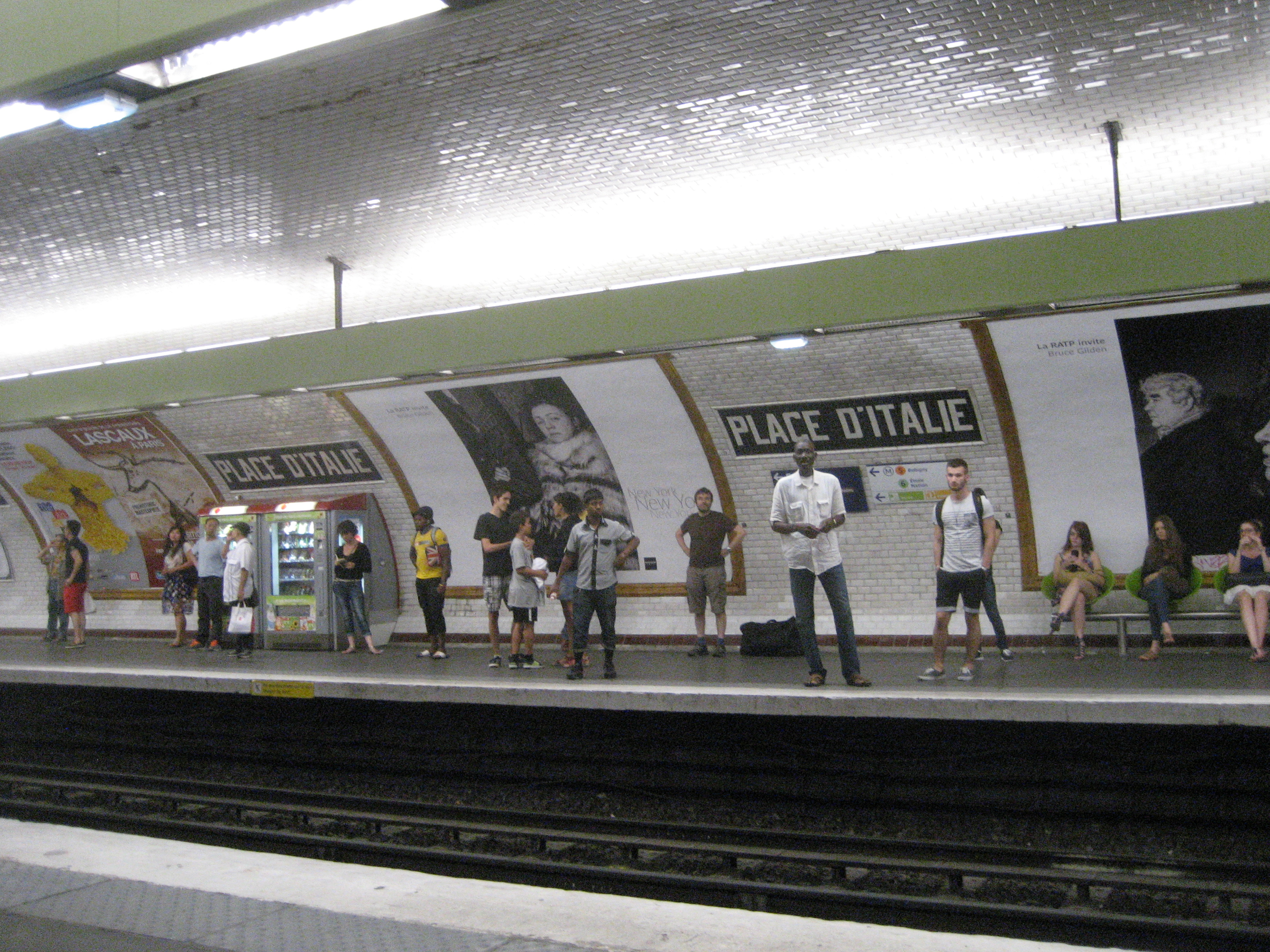 Place d'Italie (Paris Metro line 7)